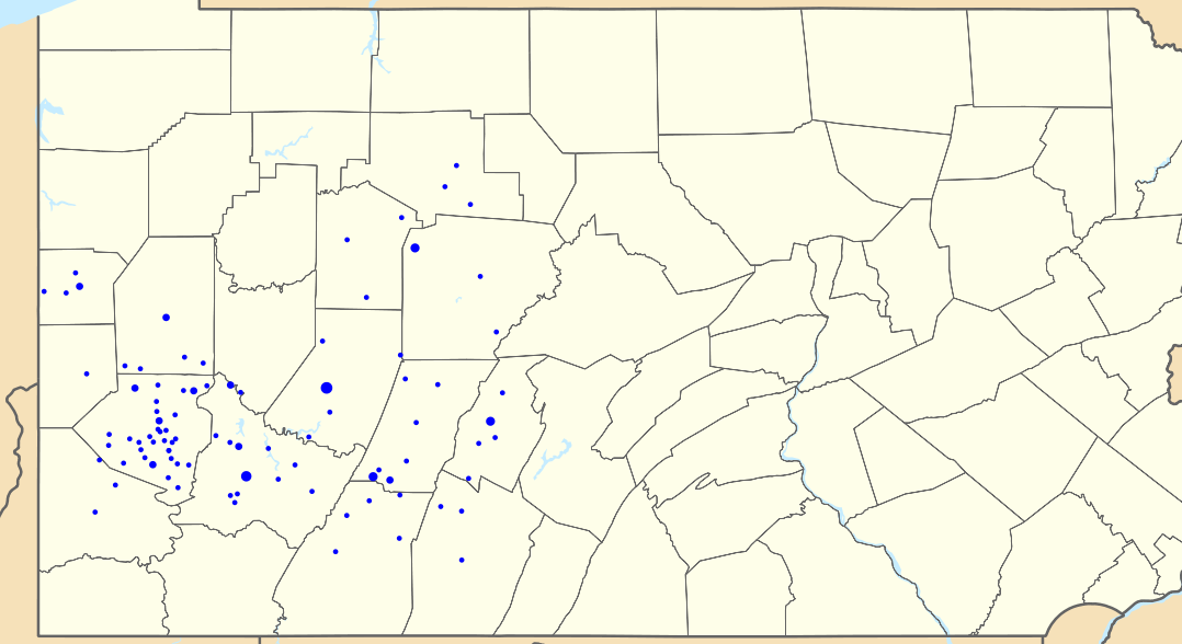 Footprint of First Commonwealth Bank branches within southwestern Pennsylvania. Zip codes with more than one branch have progressively larger points.